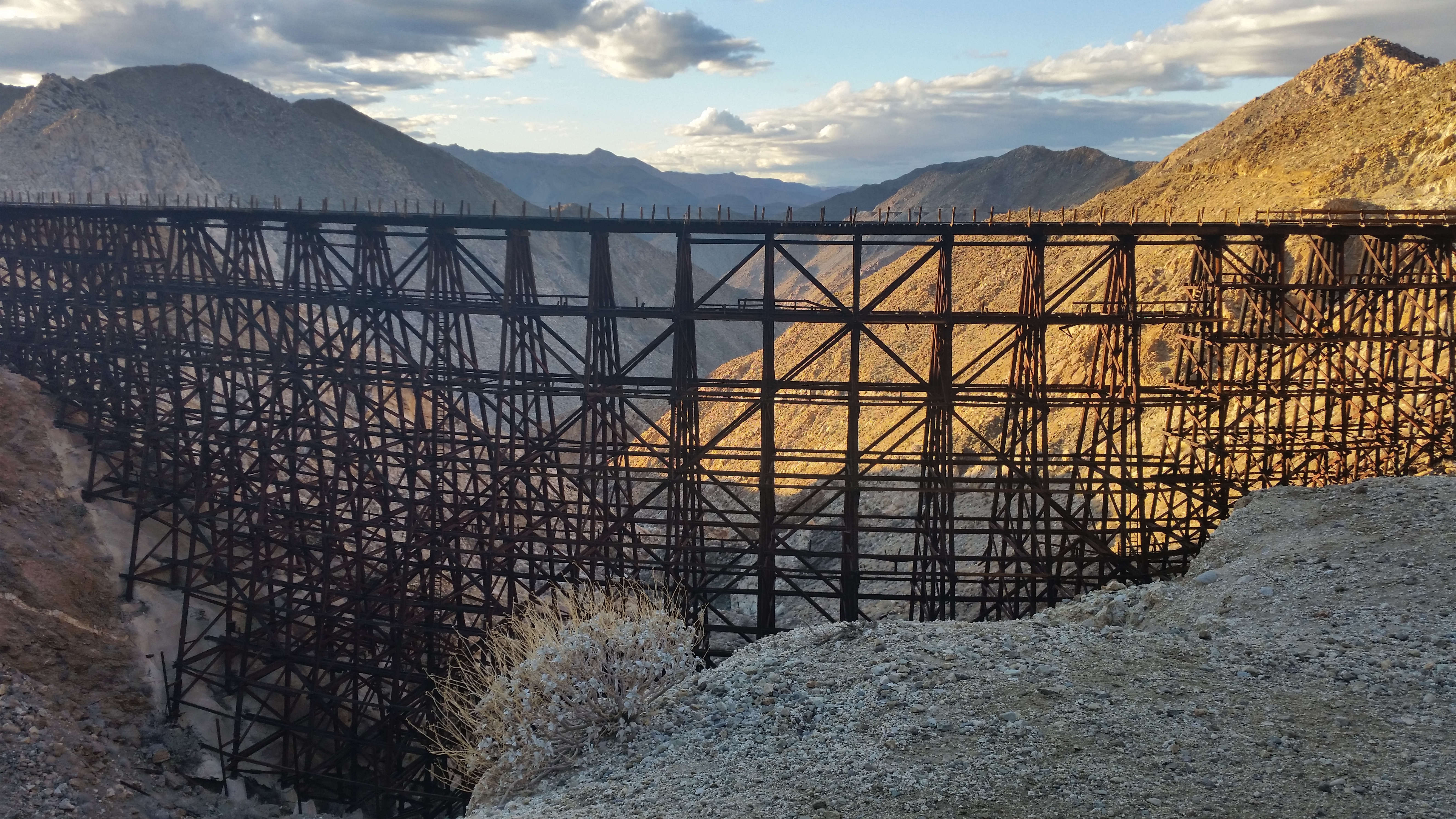 Goat Canyon Trestle as seen from the east